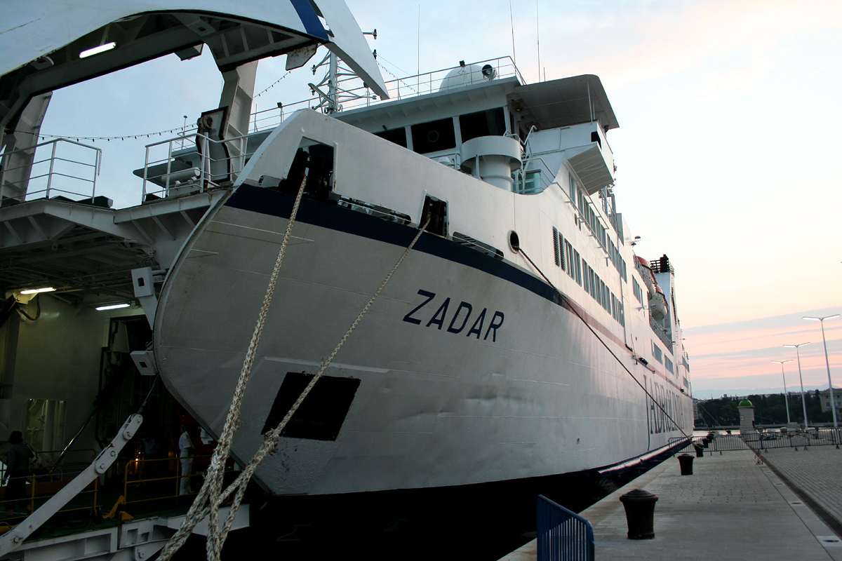 A ferry of Jadrolinjia company (Croatia)